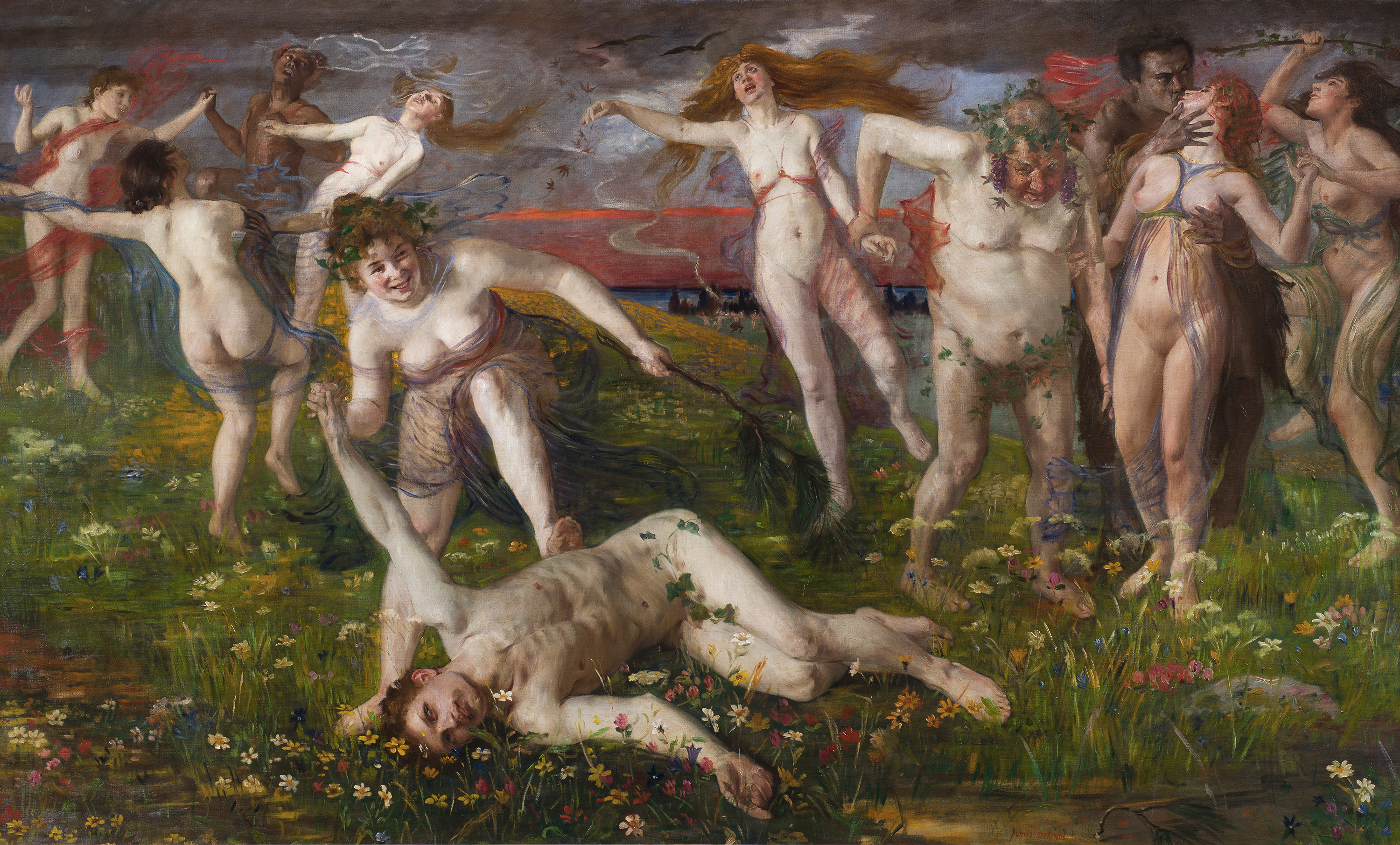 Formerly at the Kunstmuseum Gelsenkirchen, it was restituted to the heirs of its prior owner in 2016, following arbitration. From there it went to the Current location on 26 January 2018.